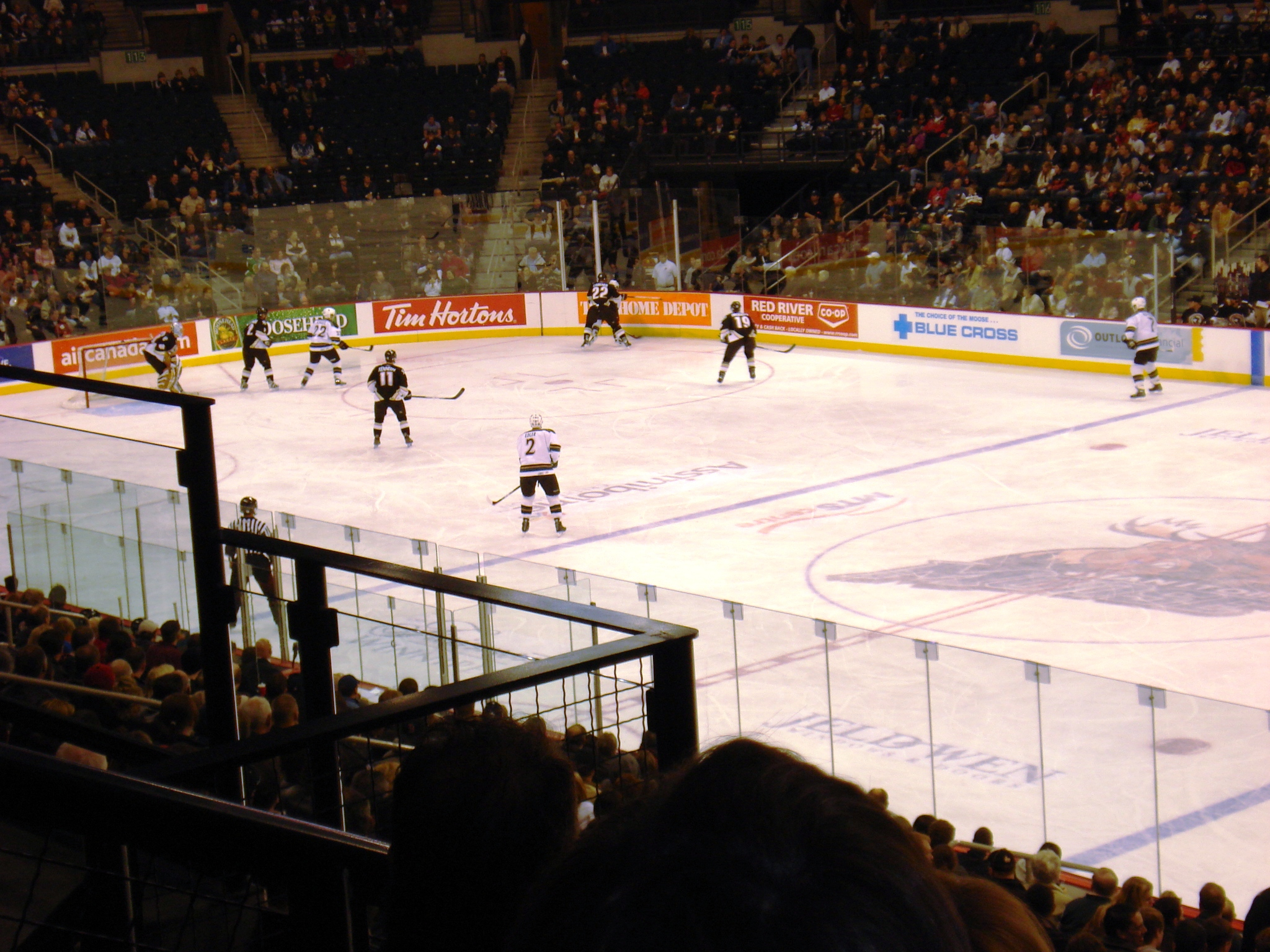 Manitoba Moose vs W-S Penguins Game at MTS Centre - Winnipeg, MB - Canada